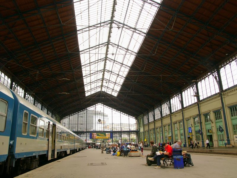 Budapest Western Railway Station (Nyugati pályaudvar Budapest), Hungary